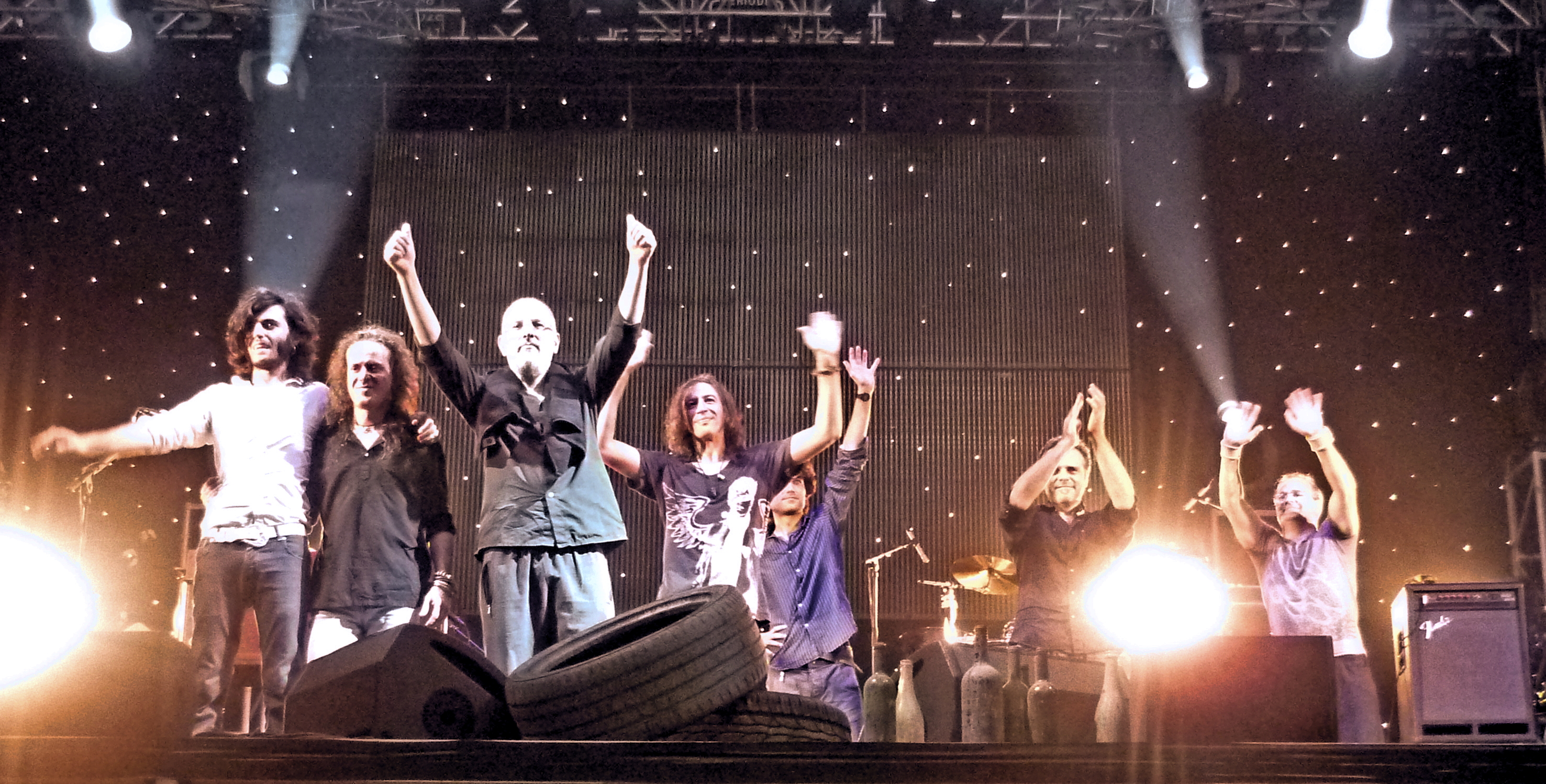 Sopa de Cabra leaving the stage at the end of their final concert in the 2011 anniversary tour. Pavello Fontajau, Girona, 1 October 2011. From left to right: Xarim Aresté, Jaume 'Peck' Soler, Francesc 'Cuco' Lisícic, Gerard Quintana, Eduard Font, Josep Thió, Pep Bosch.